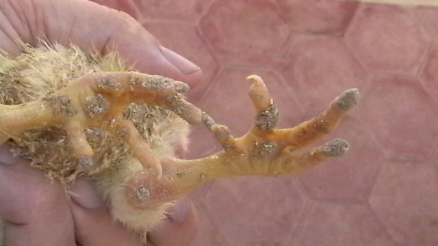 Symptoms of biotin or panthotenic acid deficiency in chicken (chicks 11-days old on a multivitamin deficient commercial diet from day 1) : wartlike lesions on the toes